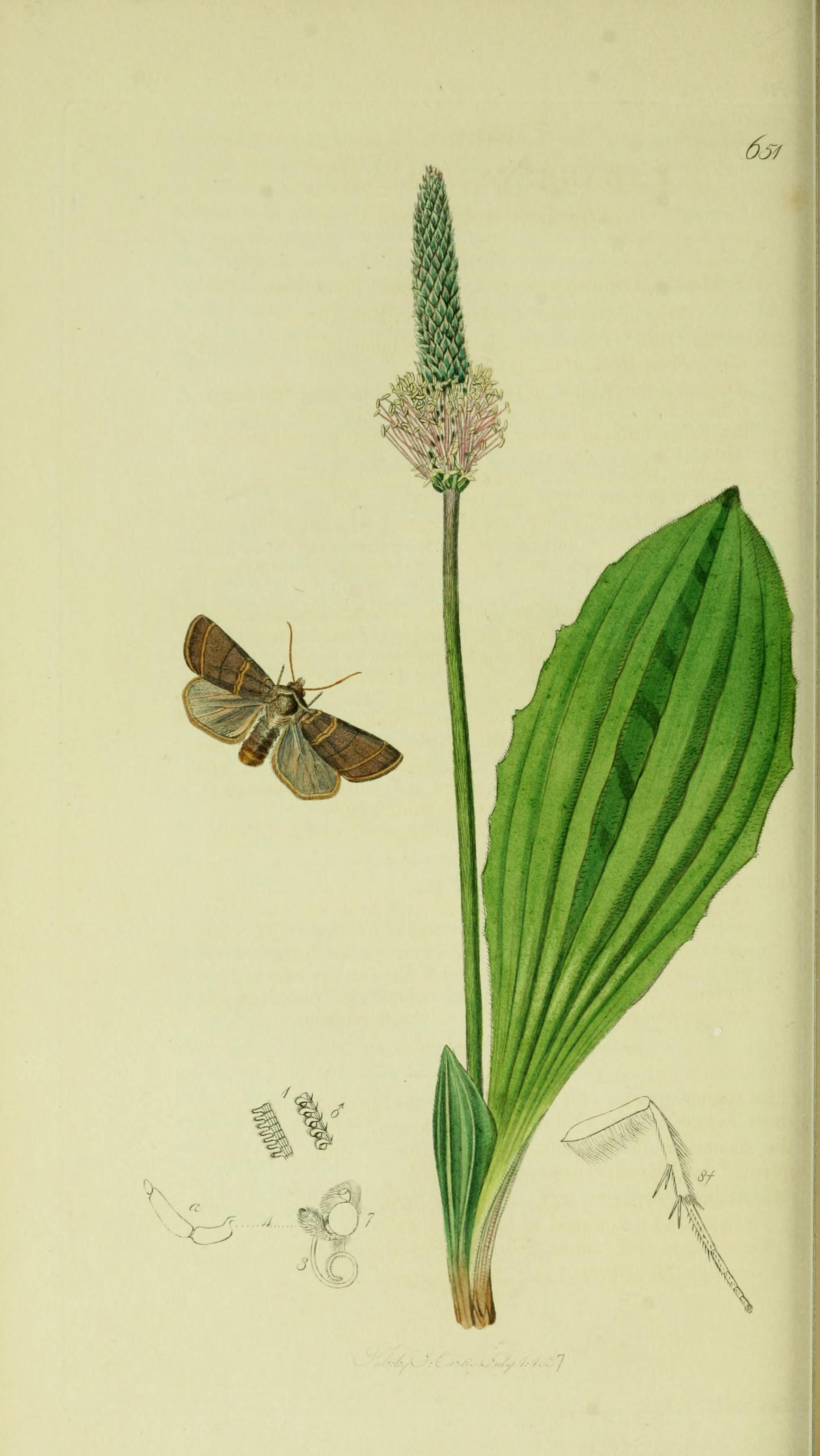 An illustration from British Entomology by John Curtis. Caradrina bilinea or Charanyca trigrammica (Treble Lines).